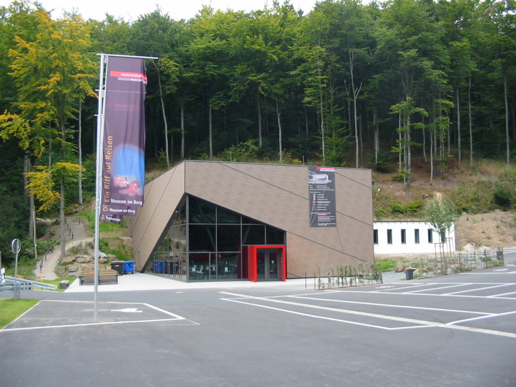 View of the 'cave experience centre' at the Iberg Dripstone Cave, Museum am Berg, Harz mountains, Germany